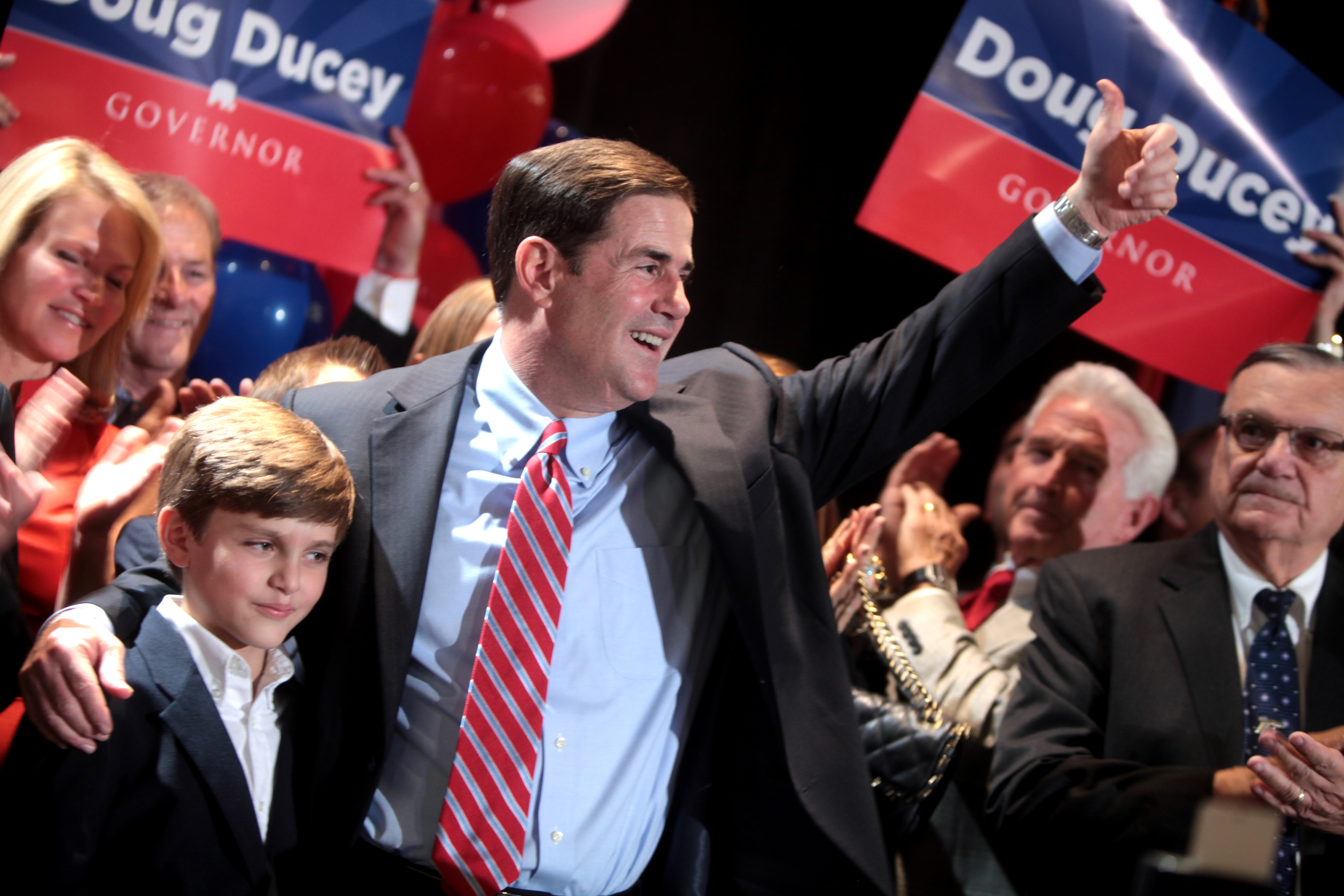 Doug Ducey speaking at a campaign rally in Phoenix, Arizona.